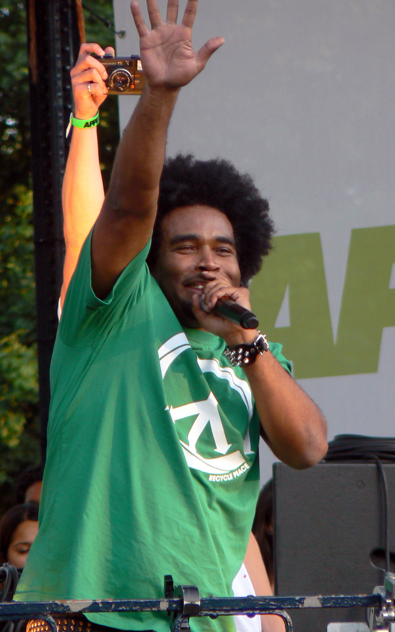 Pharoahe Monch at Appelsap in the Oosterpark, Amsterdam, NL on August 2nd, 2009.